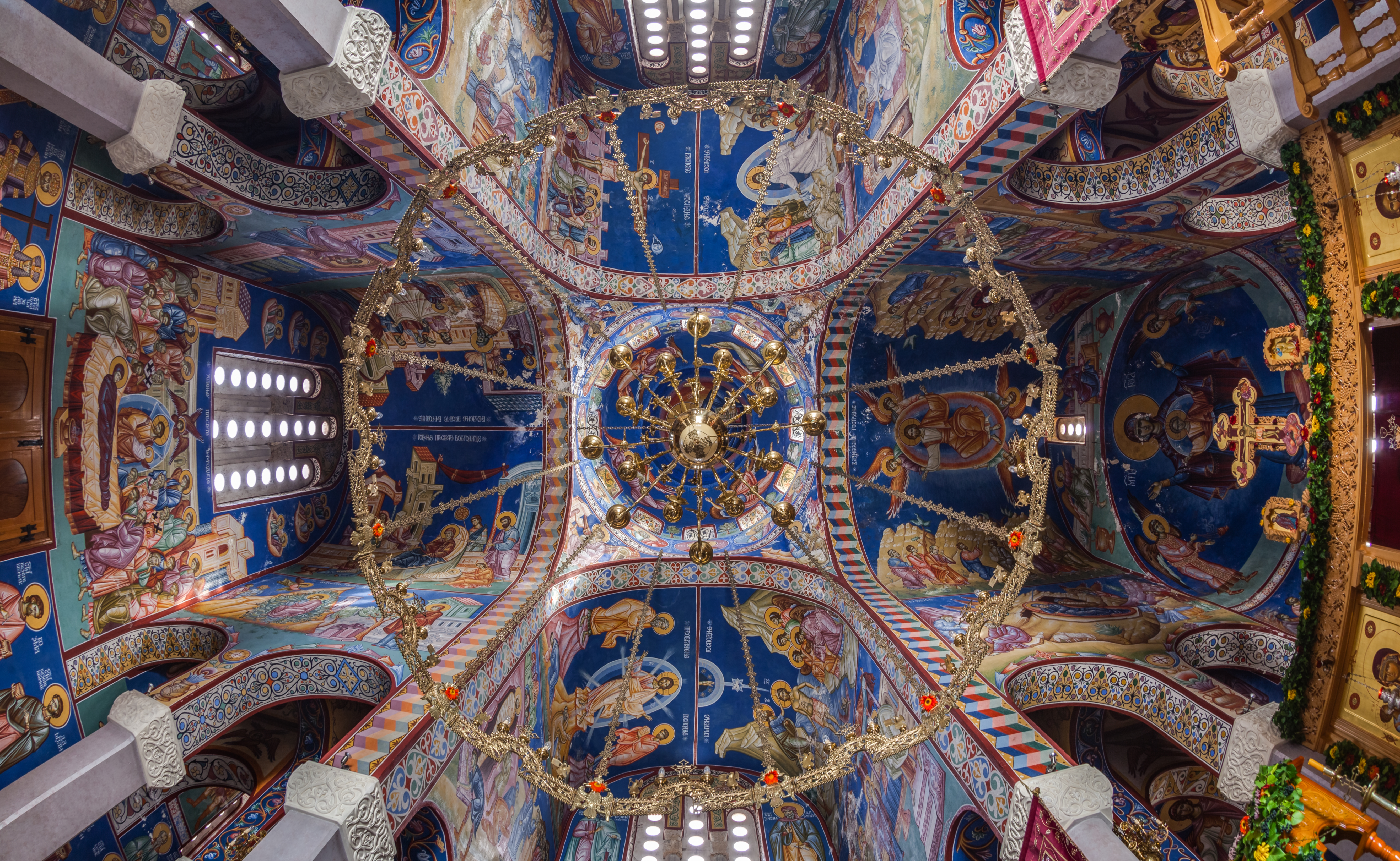 Interior of the Serbian Orthodox Hercegovačka Gračanica church, built in 2000 and located on the Crkvina Hill overlooking the town of Trebinje, Republika Srpska, Bosnia and Herzegovina. The temple is an exact copy of the Gračanica monastery in Kosovo (built in 1321).